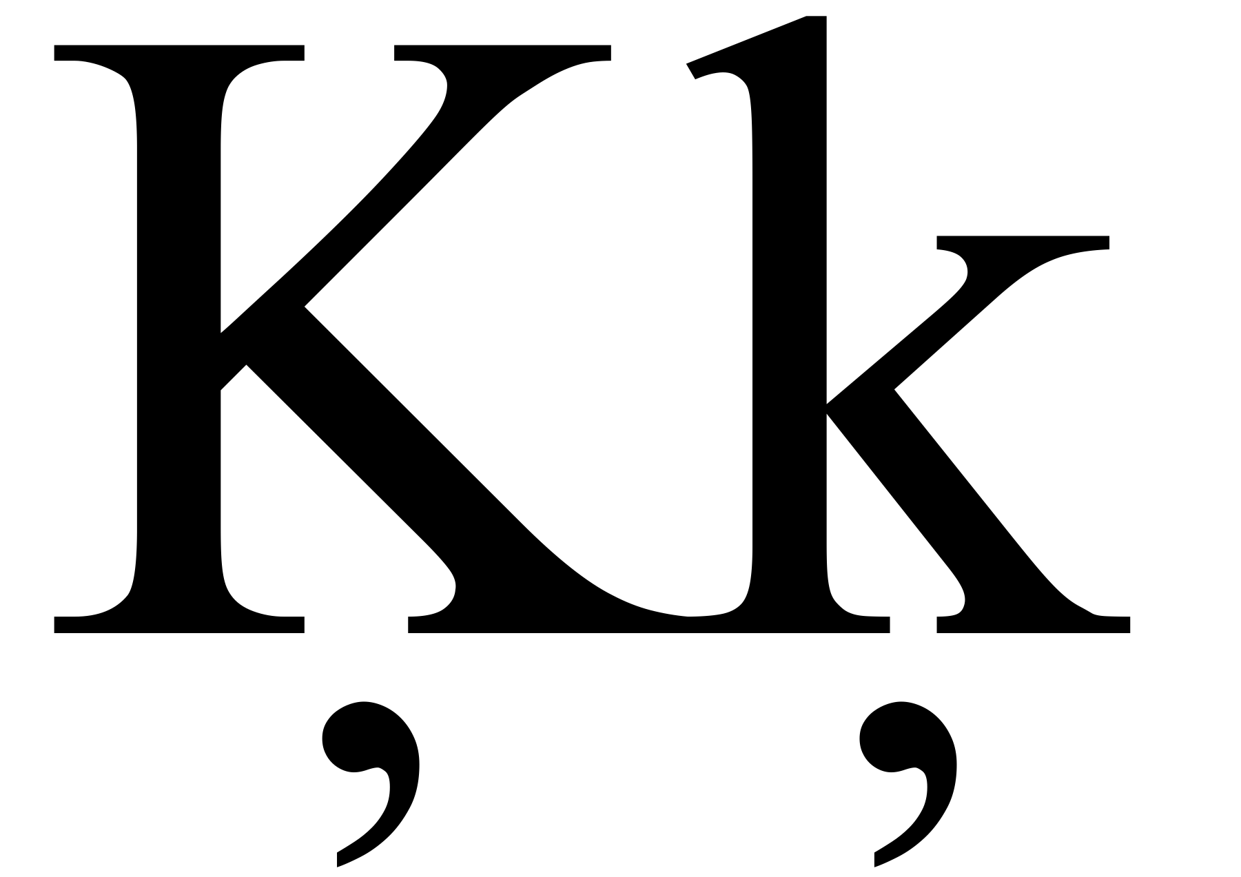 K with cedilla